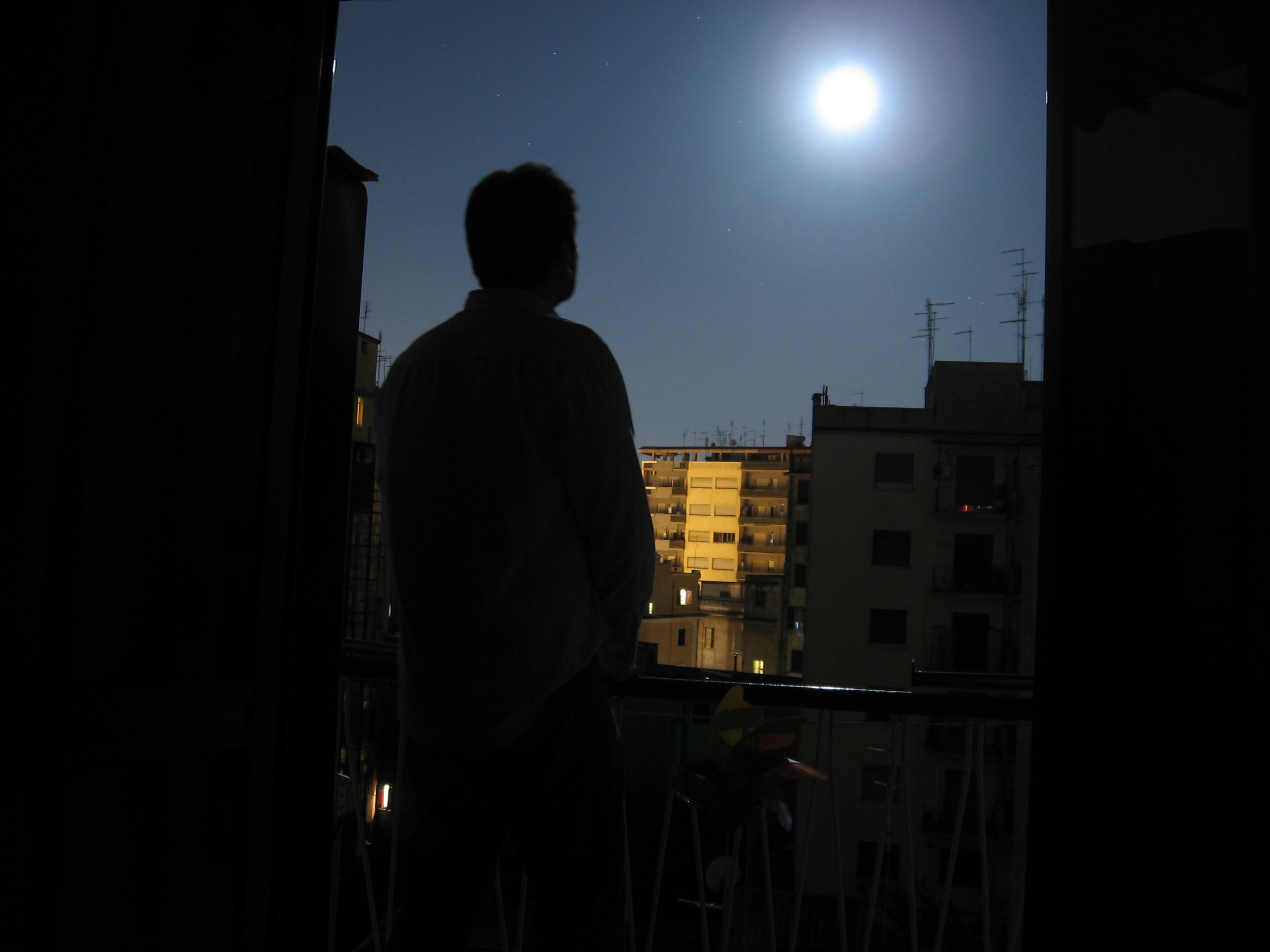 Self-portrait by moonlight with 15 sec. time exposure